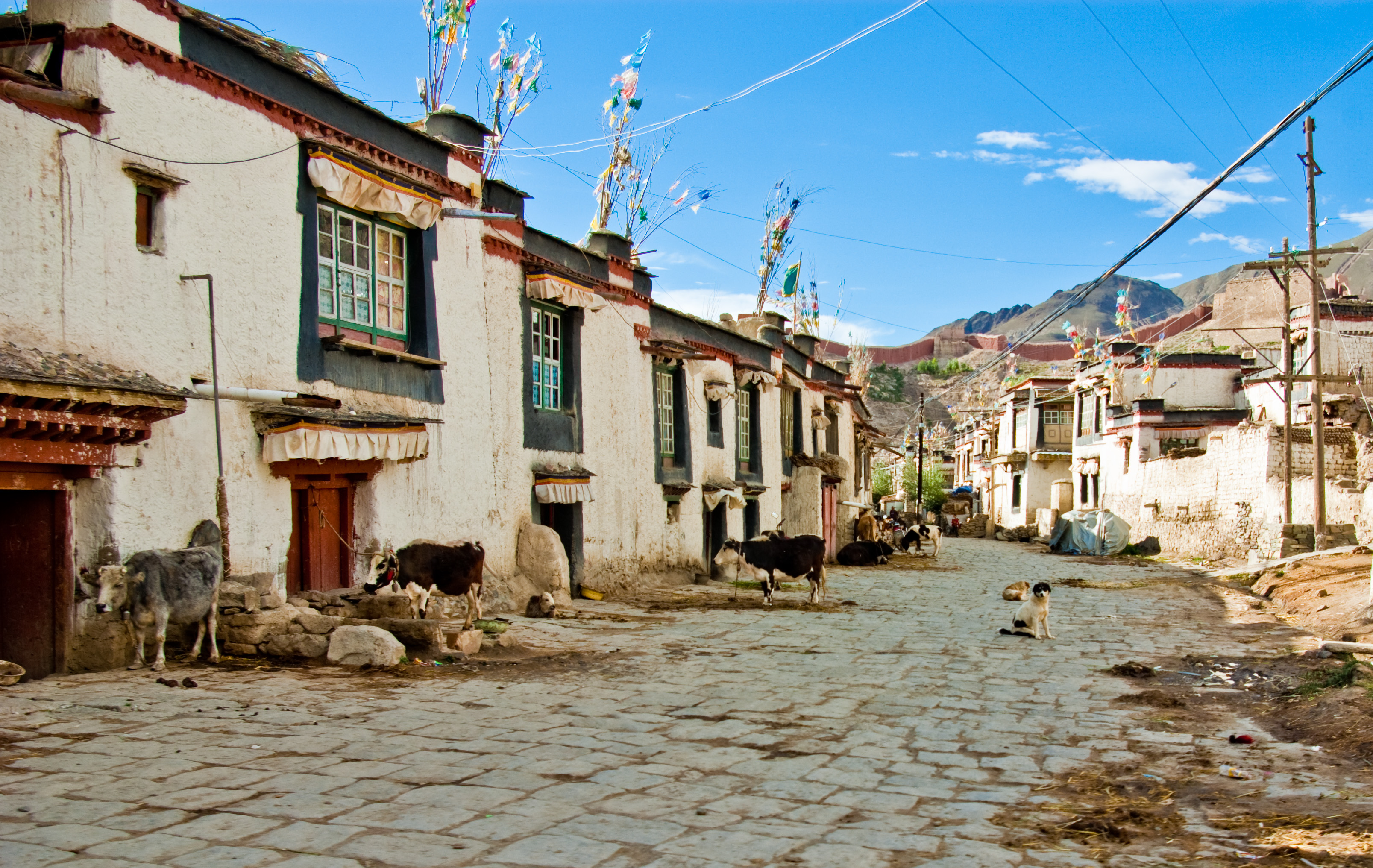 Down town of Gyantse in Tibet